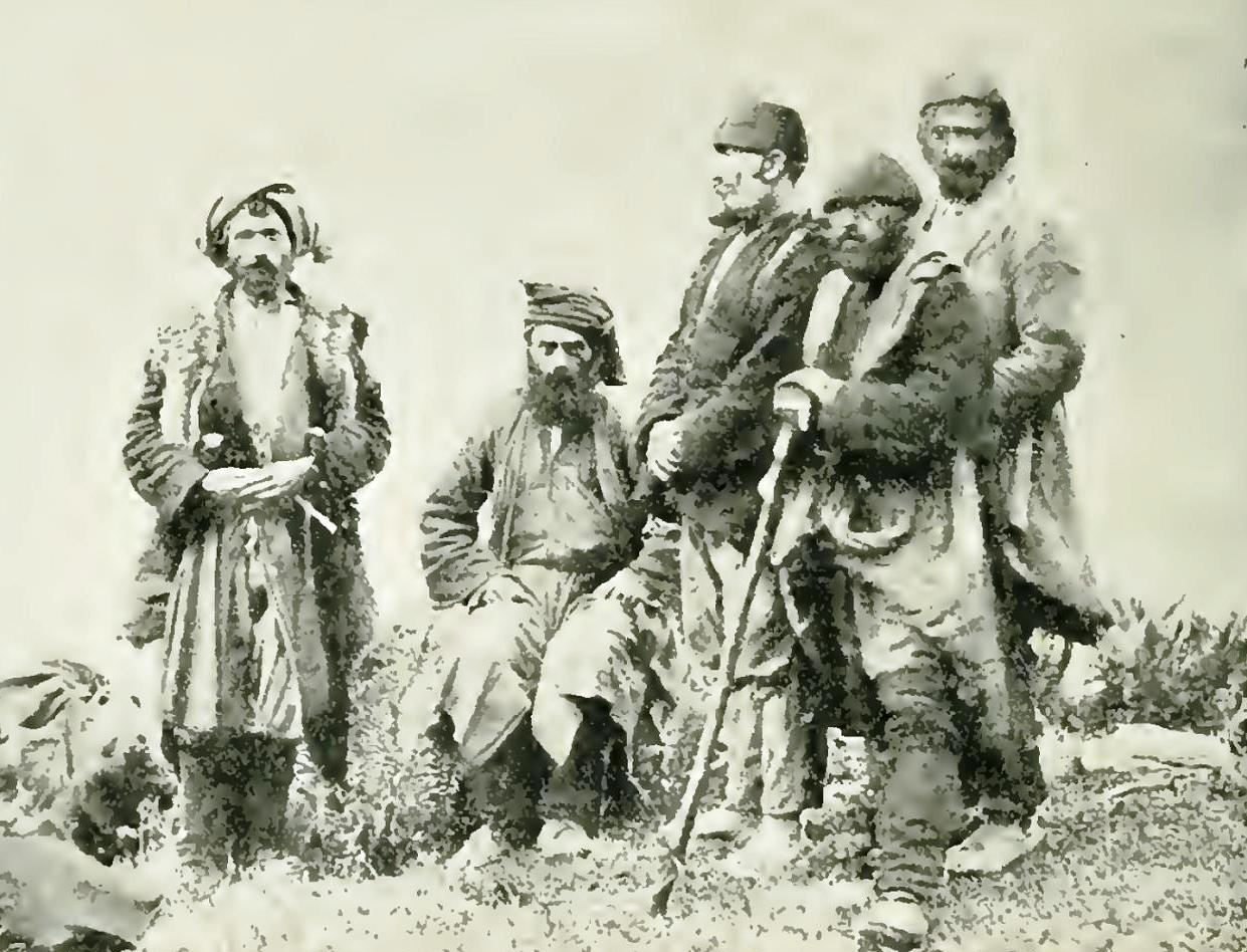 Svanetians.